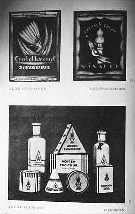 Advertising Art - Hugo Scheinert